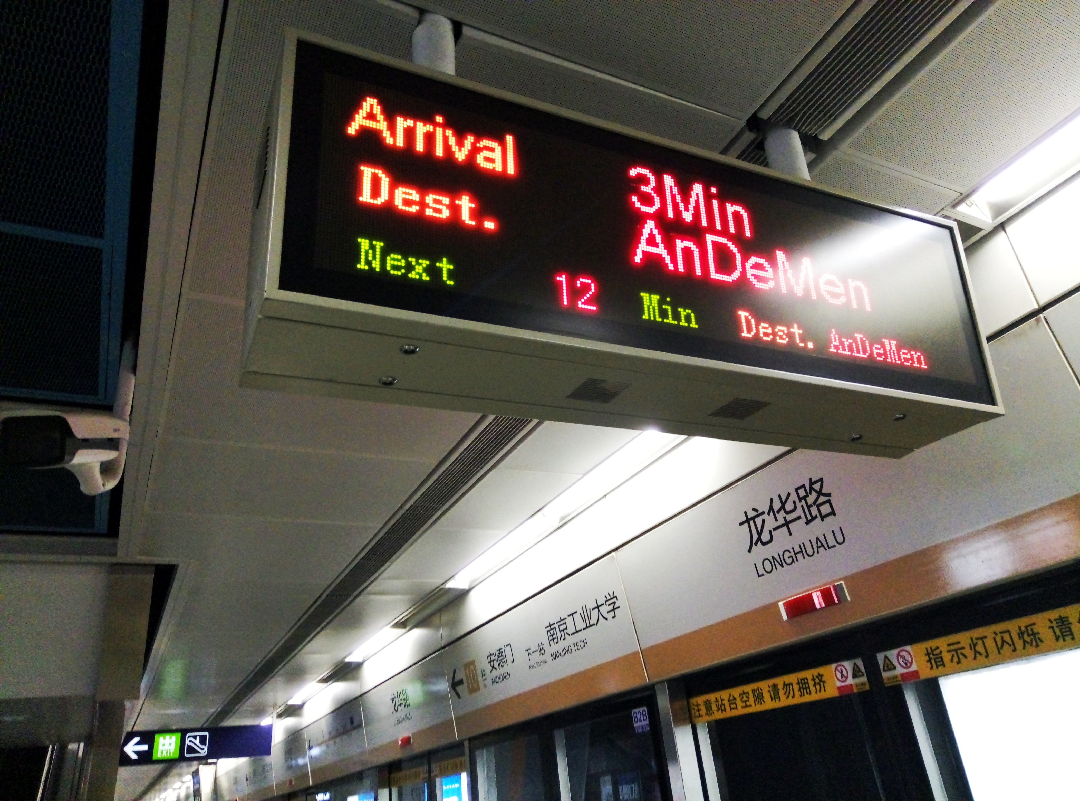 Nanjing Metro Line 10 Longhualu Station